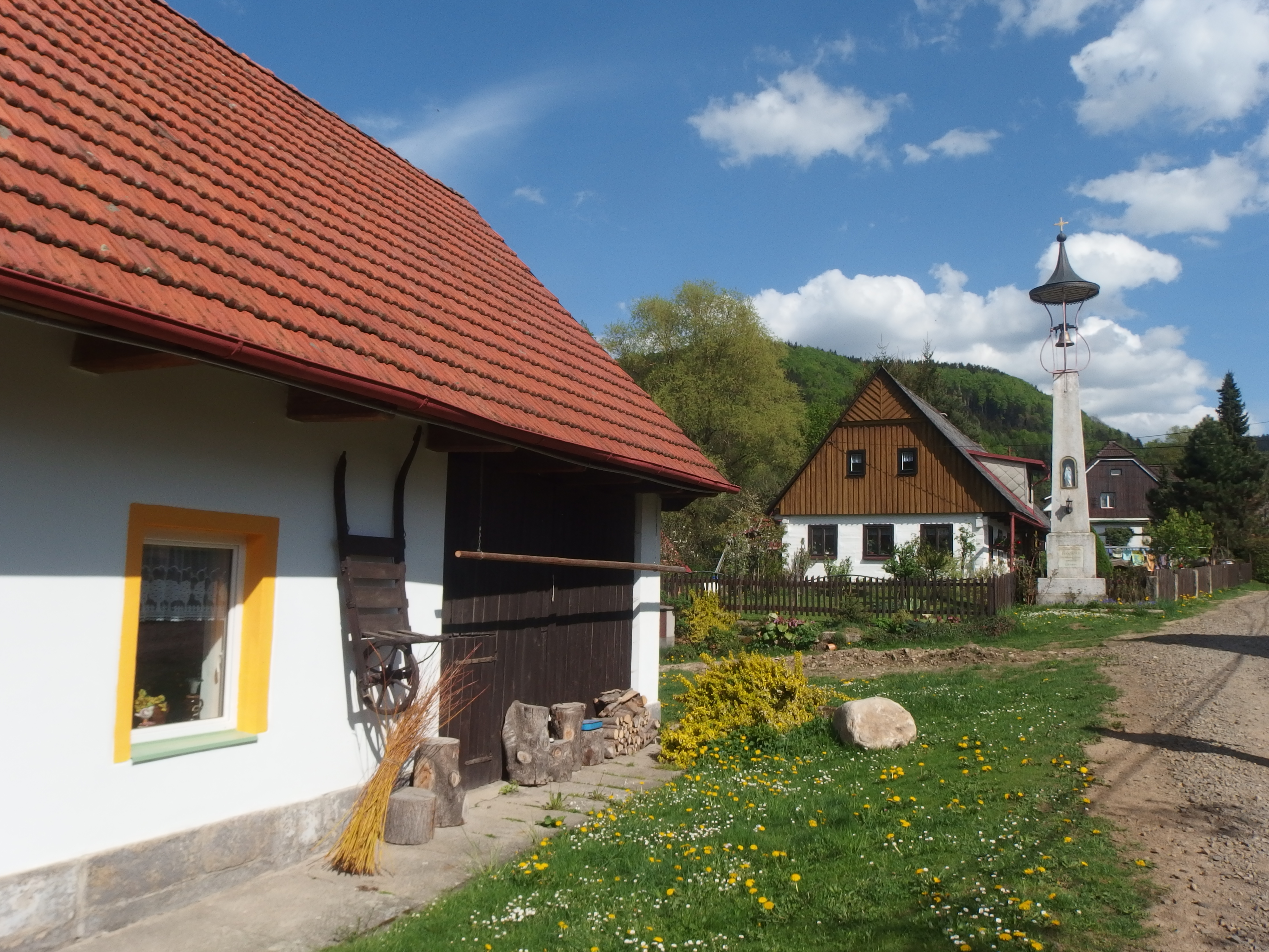 Machov, Náchod District, Czech Republic, part Machovská Lhota.